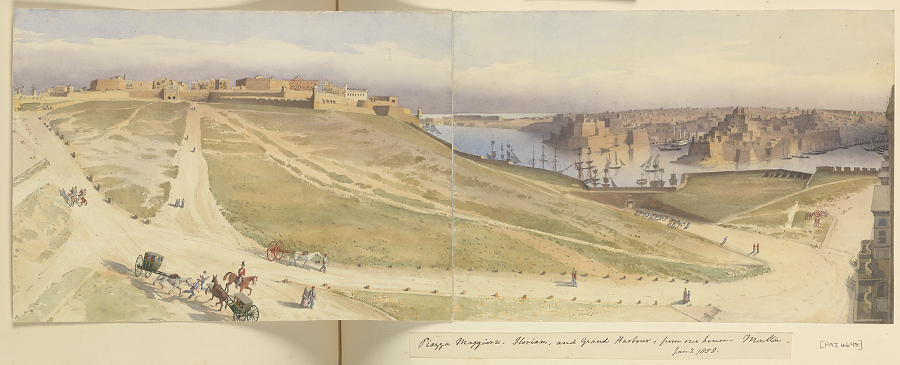 'Piazza Maggiore, Florian, and Grand Harbour, from our house, Malta, Jany 1858'.